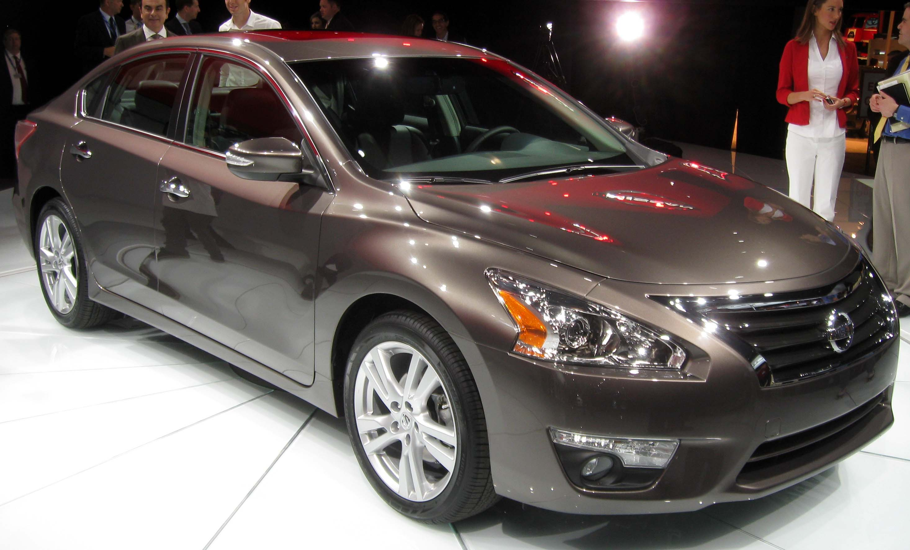 2013 Nissan Altima photographed at the 2012 New York International Auto Show.